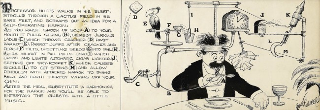 Original art for Rube Goldberg's "self-operating napkin" machine.